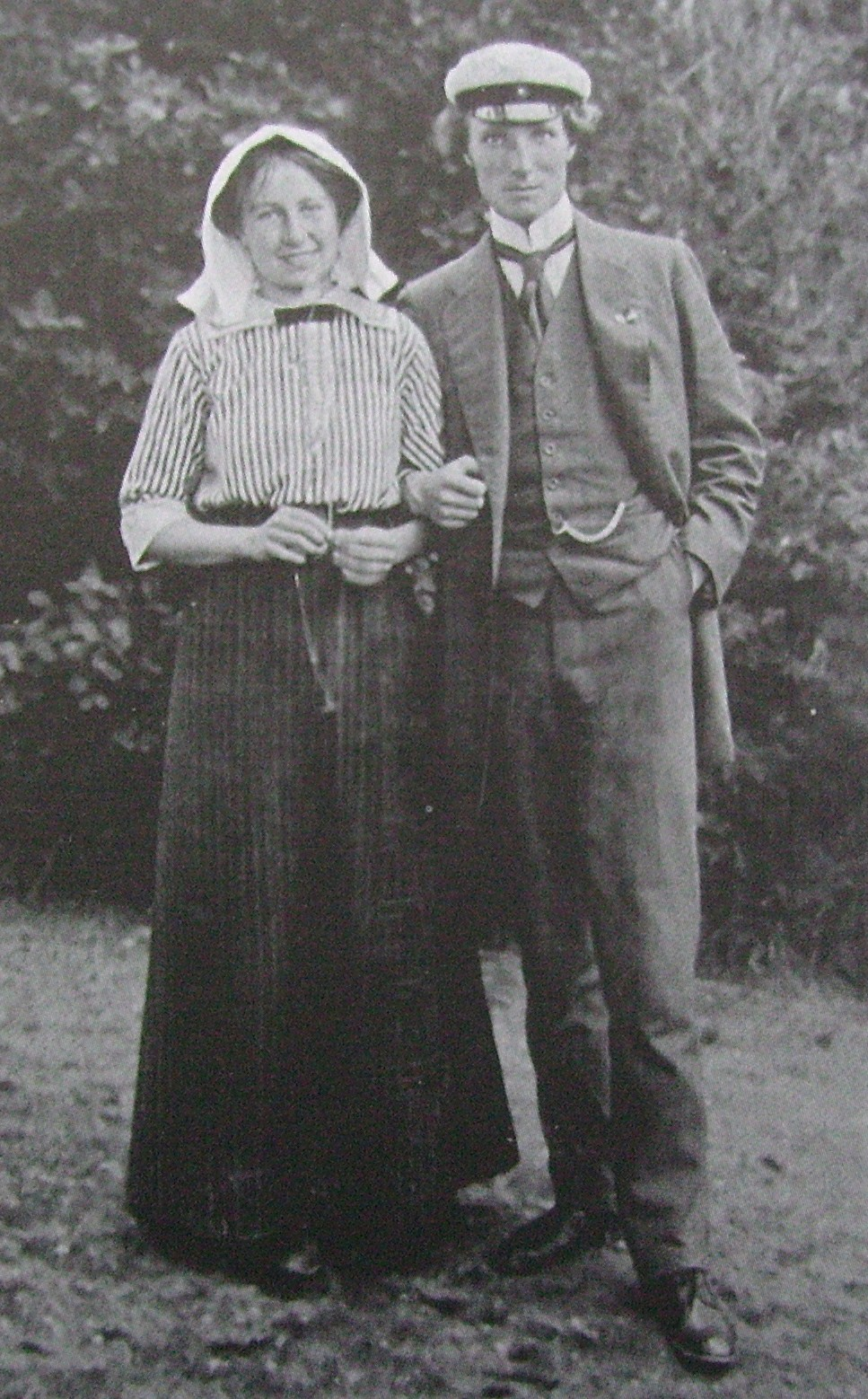 Picture of Ruth Kjellén and Manfred Björkquist in Hampnäs 1913